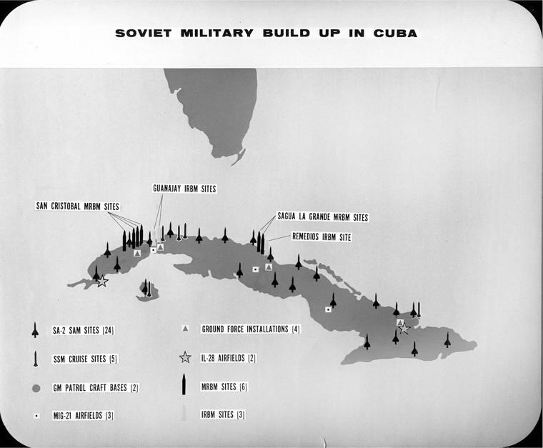 Soviet Military Build Up In Cuba, late October 1962. United States Department of Defense graphic in the John F. Kennedy Presidential Library and Museum, Boston.